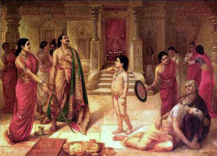 Mohini asking Rukmangada to kill his own son.